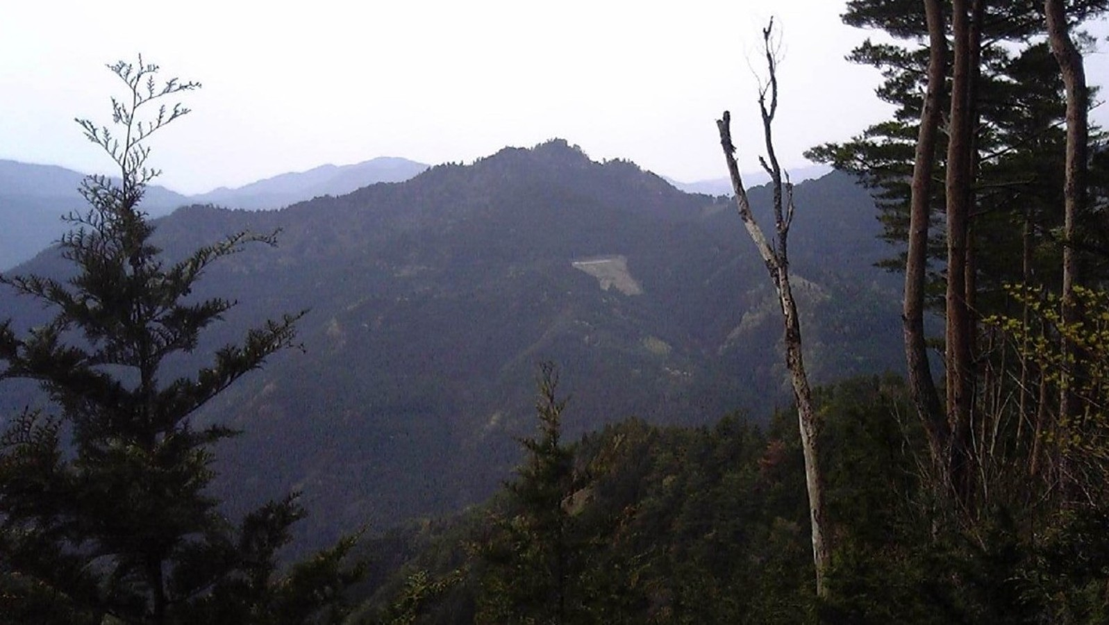 Mount Shosanji (Shosanjiyama) as seen from the NNE.